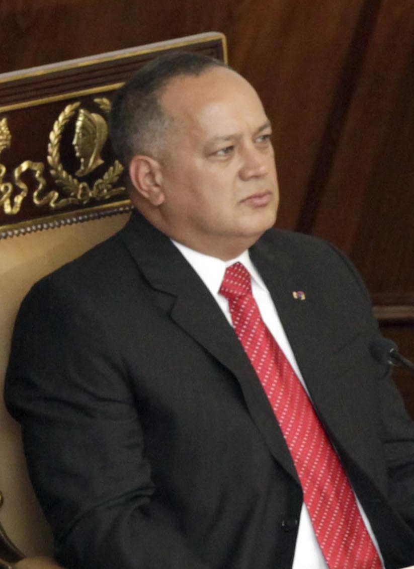 Caracas (Venezuela), 19 Abril del 2013. Posesión de Nicolas Maduro como Presidente de la República Bolivariana de Venezuela. Foto: Xavier Granja Cedeño/Ministerio de Relaciones Exteriores Comercio e Integración